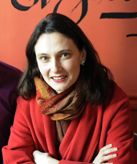 Béatrice Martin, harpsichordist, photo by Jean-Baptiste Millot.